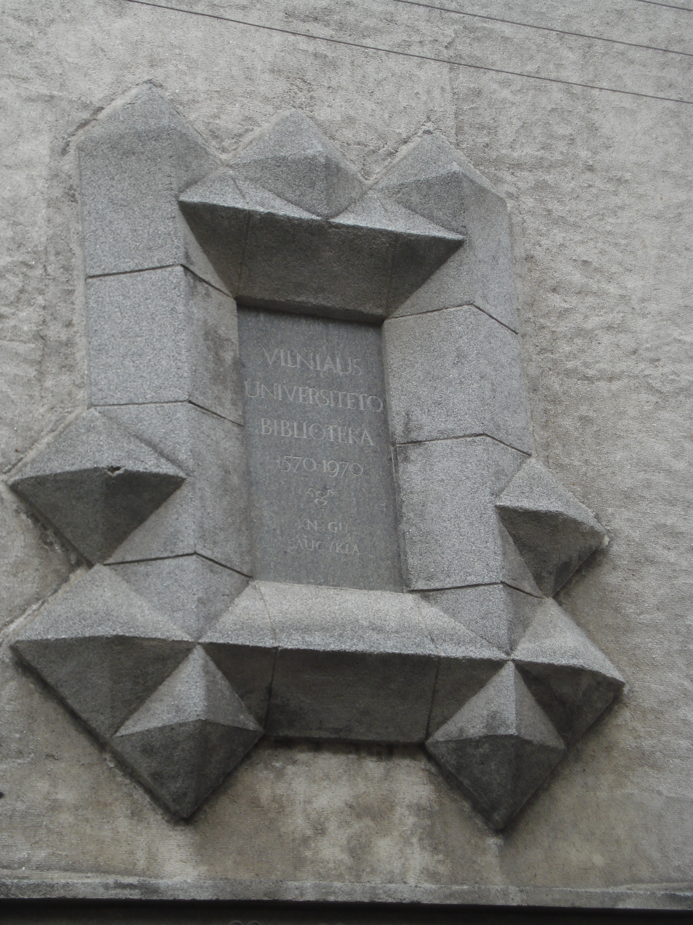 Memorial plaque commemorating the 400th anniversary of the Vilnius University Library (1570-1970). Šv. Jono g. R. Gibavičius, arch. A. Brusokas, A. Švabauskienė (1970)